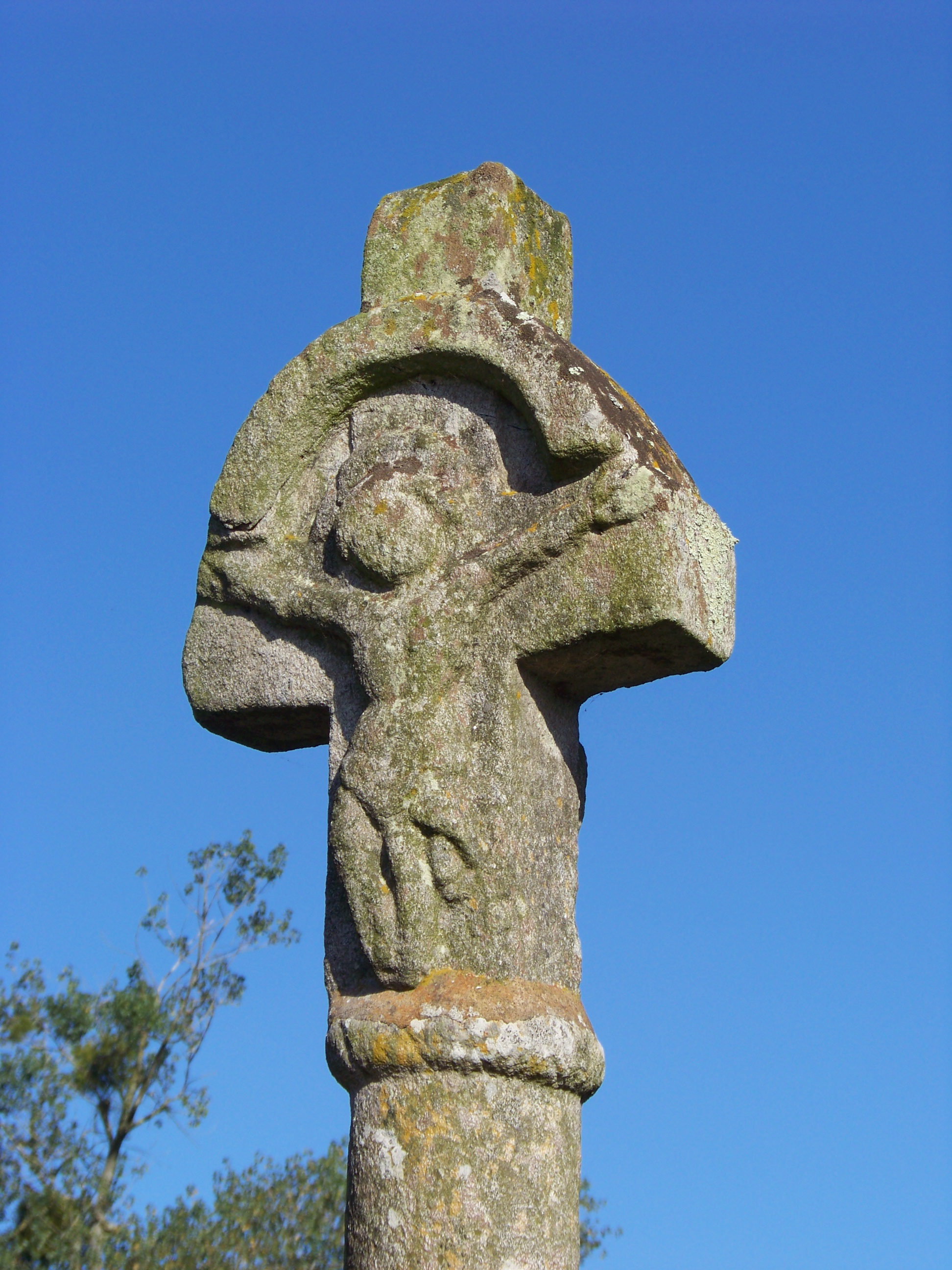 Villenard Cross, Ploermael, Morbihan, Brittany .